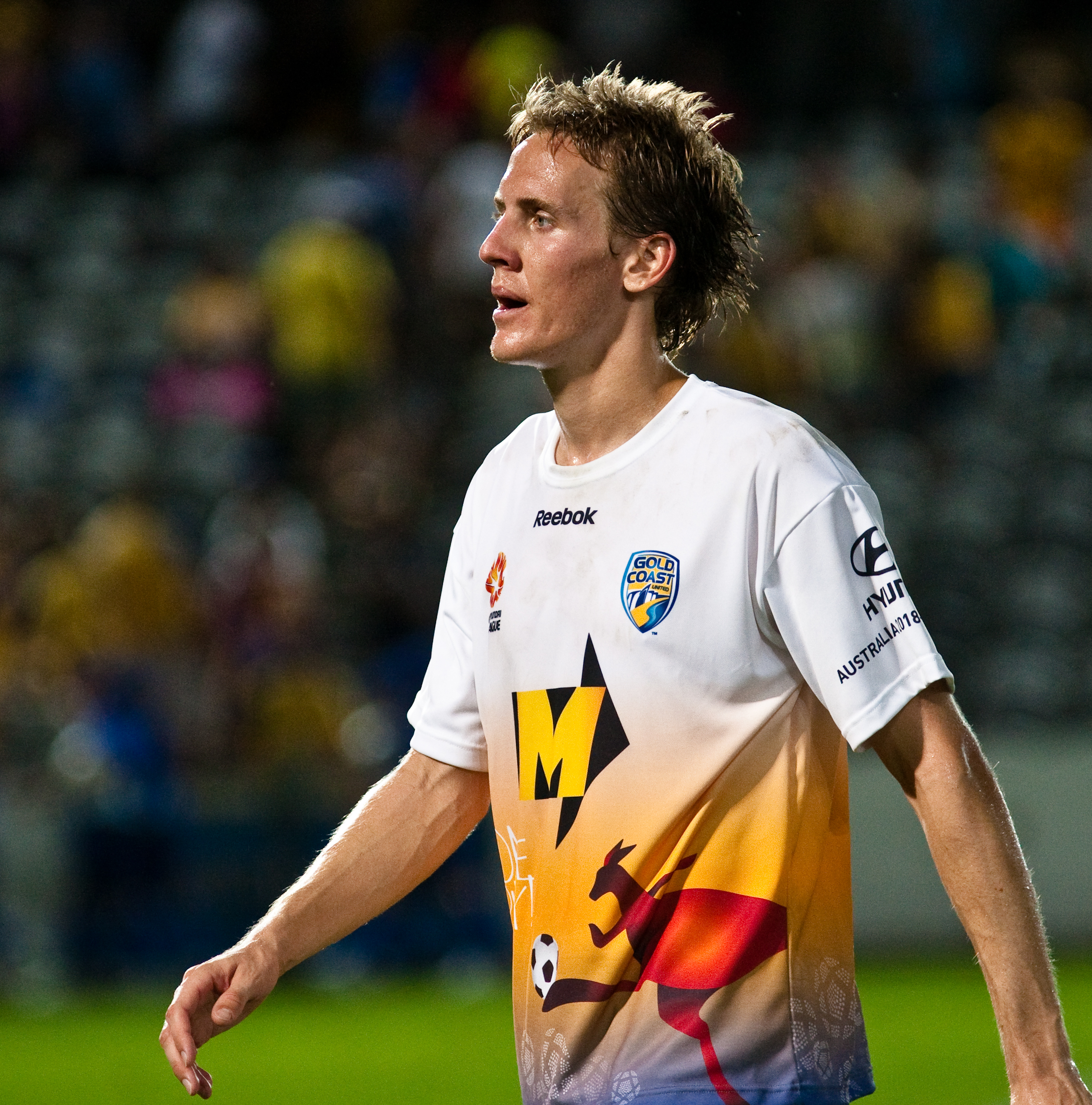 Michael Thwaite after playing for Gold Coast United against the Central Coast Mariners.